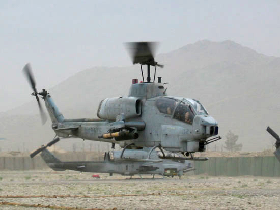 A pair of AH-1W SuperCobras from the United States Marine Corps.